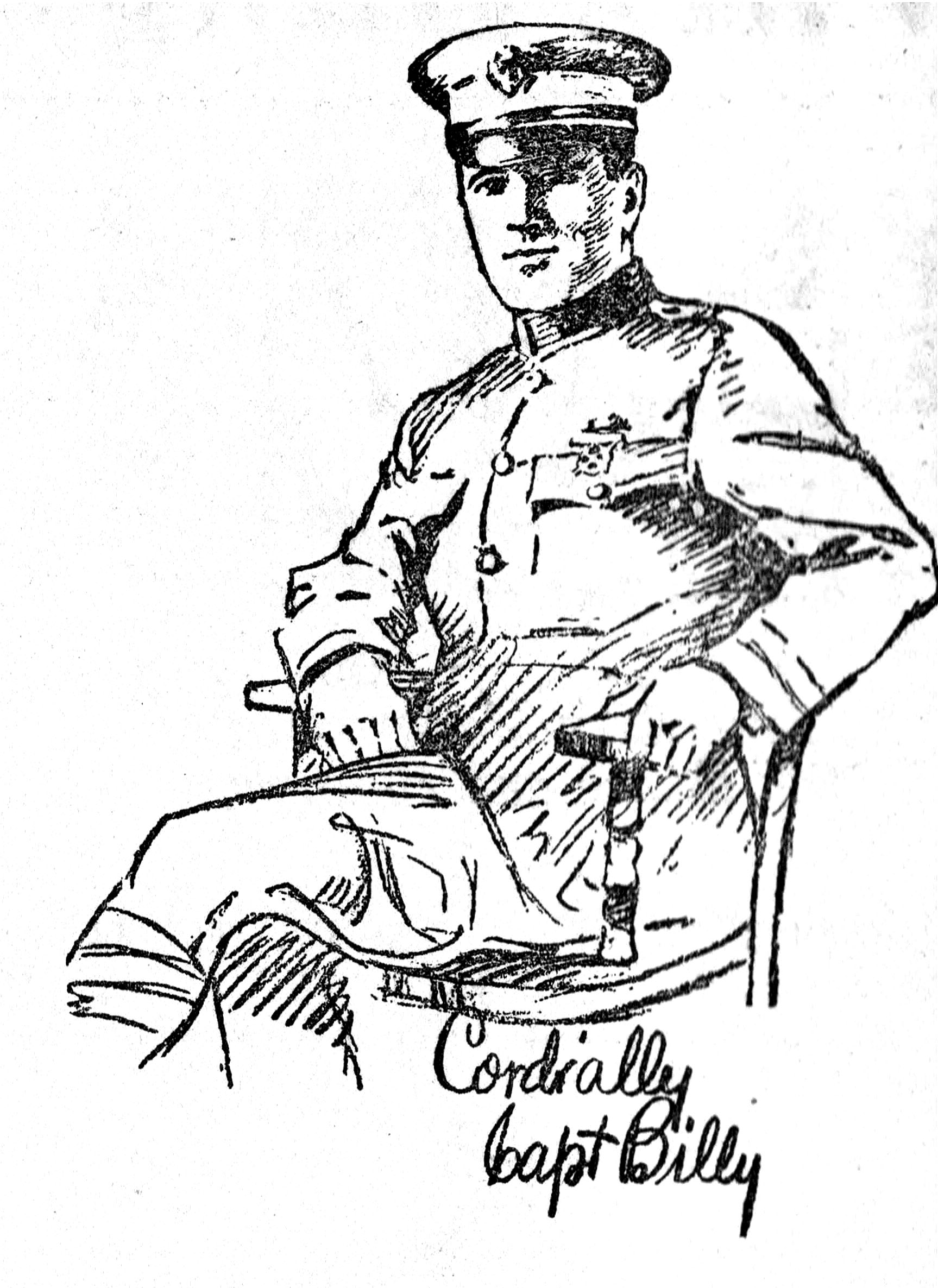 This is a drawing of magazine publisher Captain Billy Fawcett (seated), as featured on page 2 of the August 1923 issue of Capt. Billy's Whiz Bang (Vol. IV, No. 44.)